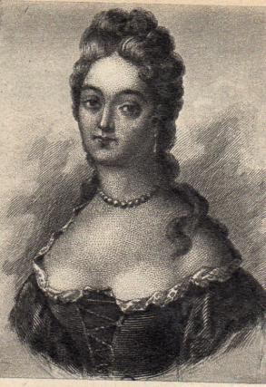 Anonymous drawing of Marie Émilie Thérèse de Joly, known as "Mademoiselle de Choin" (she was the second but morganatic wife of Louis of France, Dauphin of France (Le Grand Dauphin)